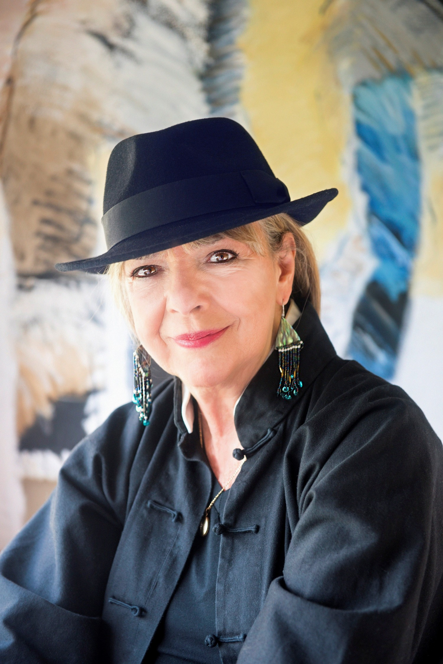 Ann Mortifee in her studio, Vancouver BC, 2016 Depicted place: Vancouver Depicted person: Ann Mortifee – Canadian musician